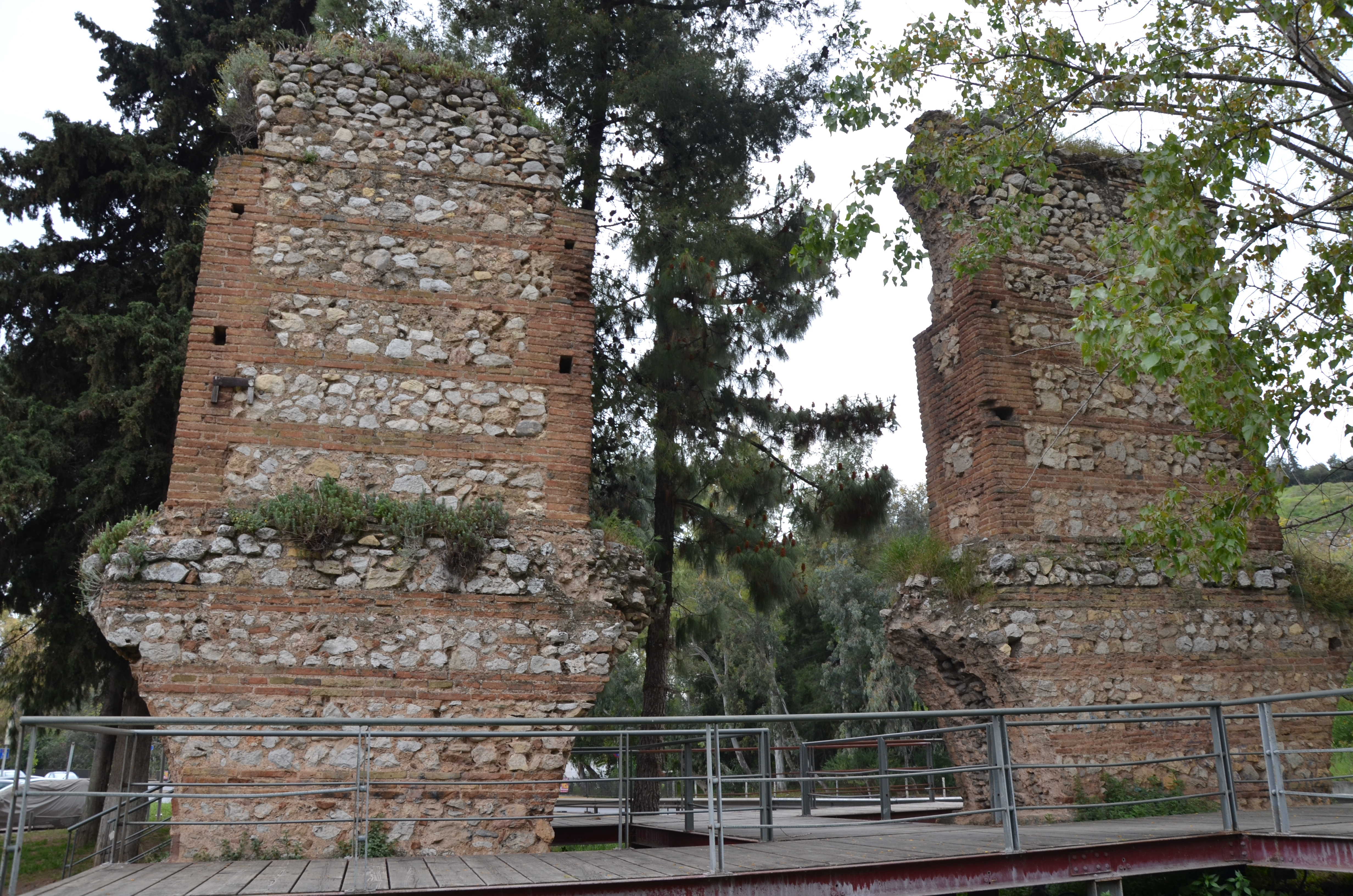 Hadrianic aqueduct, Remains of water bridge in Nea Ionia, Athens